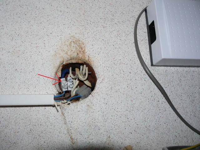 Burnt screw terminal. As you can see, workers with certificate also can make mistakes. What was the mistake? -Previous qualified specialist had connected old aluminium cable to new copper cable inside screw terminals. After the washing machine worked for six months with this connection, a burning smell became evident inside the apartment. When the apartment owner called me, I hadn't seen such a method of wiring! What was the reason? -There was fresh spackling paste and paint in the stairs, but the electrician didn't want to break into the freshly filled walls to put in a new cable. He left old the aluminium cable between the distribution board and junction box inside the apartment.